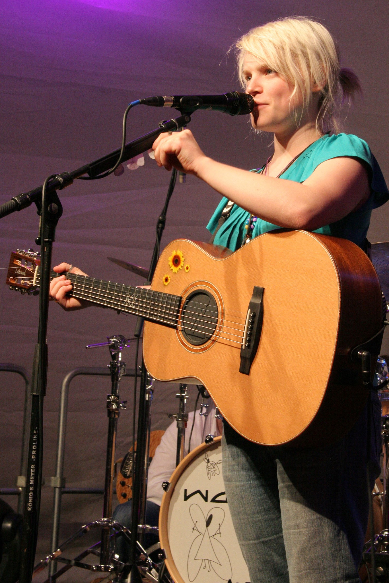 Wallis Bird on stage during a concert in Worms, Germany, 2007. Please note that this picture is not mirror-inverted, as Bird plays the guitar left-handed but standard-stringed.